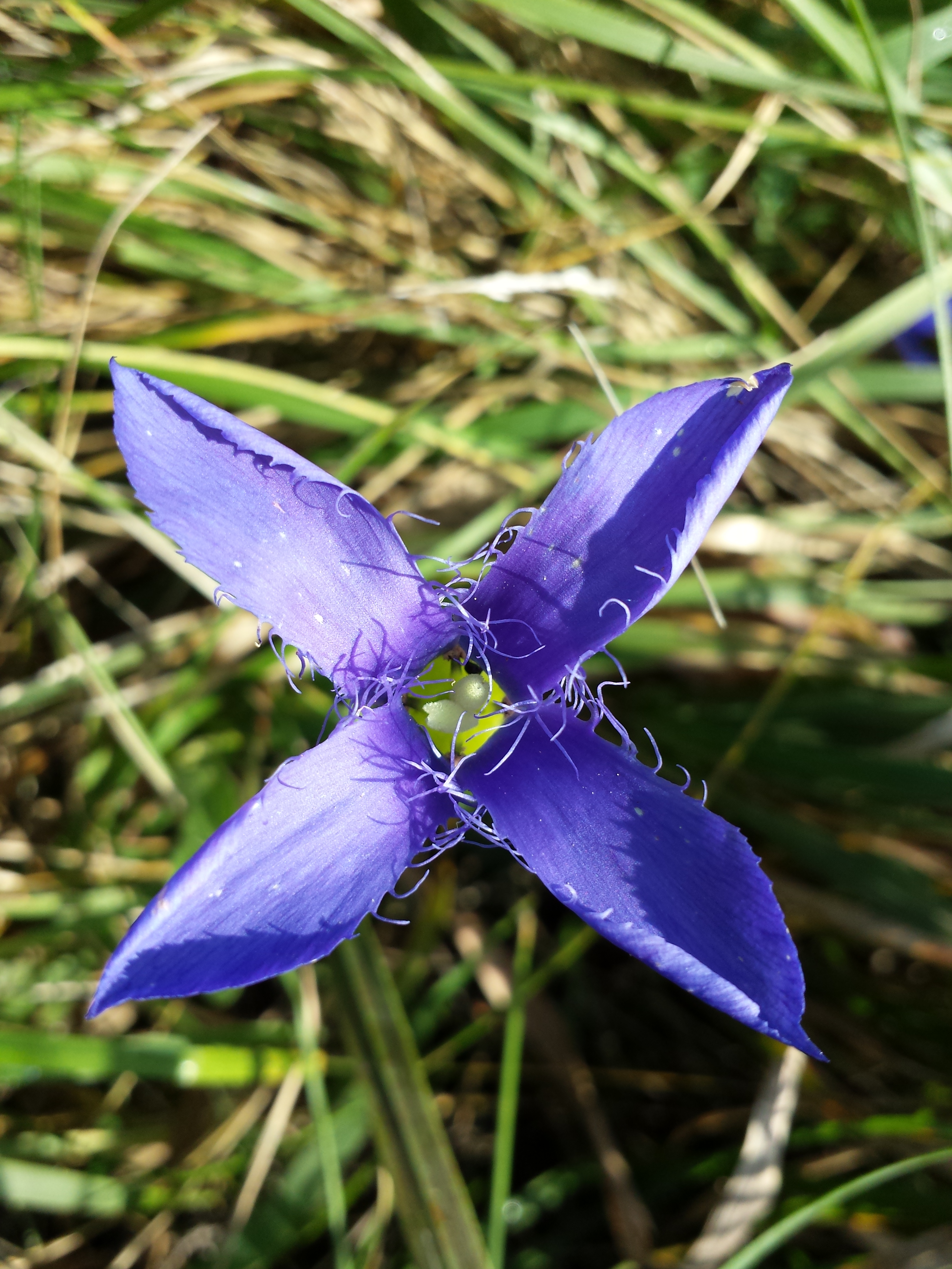 Habitus/flower Taxon: Gentianopsis ciliata (sensu Fischer et al. EfÖLS 2008 ISBN 978-3-85474-187-9) Location: near Niederhollabrunn, district Korneuburg, Lower Austria - ca. 300 m a.s.l. Habitat: semi dry grassland